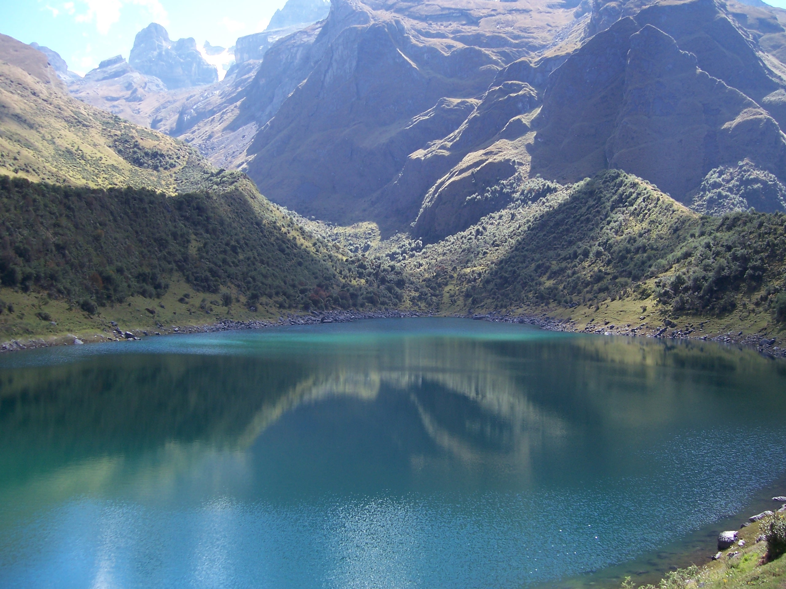 Lake Uspaccocha with Mount Ampay in the background, Ampay National Sanctuary